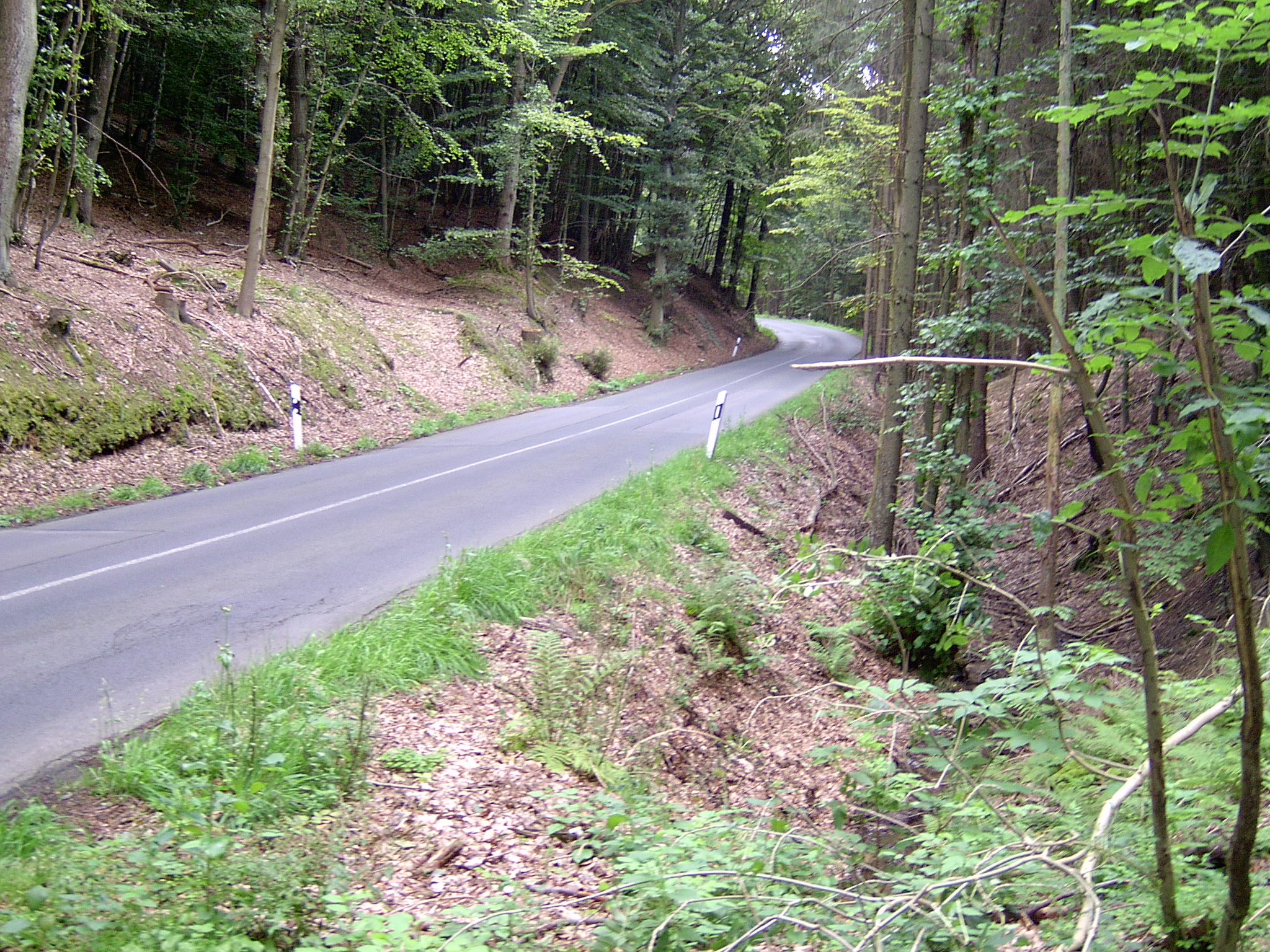 At Kahle Wart in the Wiehengebirge mountain range.